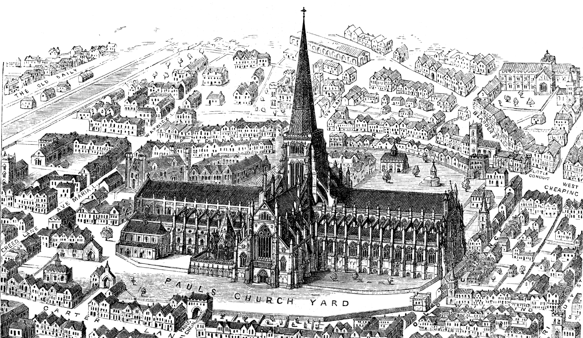 Old St Paul's Cathedral in London from Early Christian Architecture by Francis Bond (1913). From a Copy, in the possession of Mr. Crace, Esq., of the earliest known view of London, taken by Van der Wyngarde for Philip II. of Spain. (Signed W.H. Prior, Typographic Etching Co., Pub. c.1875)